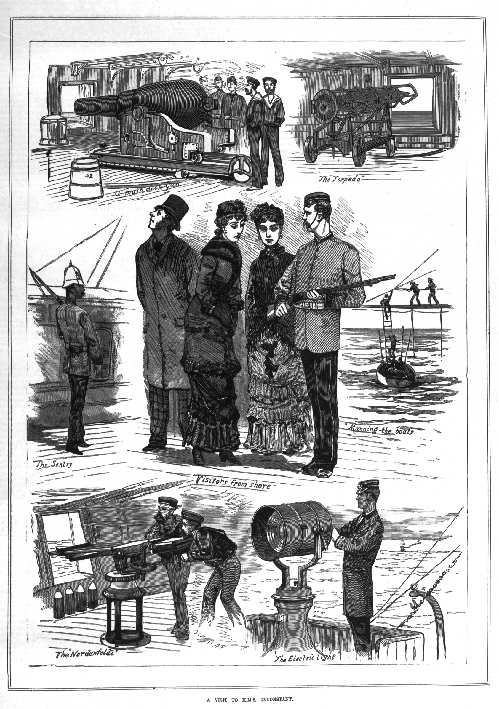 A wood engraving depicting seven scenes from a visit on board HMS Inconstant (1868) at Melbourne in June 1881. The depicted scenes are: Top left: "A main deck gun" Top right: A Whitehead torpedo, labelled, "The torpedo" Middle left: "A sentry" Centre: "Visitors from shore" Middle right: "Manning the boats" Bottom left: A Nordenfeldt gun, labelled, "The nordenfeldt" Bottom right: "The electric light" The engraving was first published in The Australasian Sketcher, 18 June 1881, p. 200.